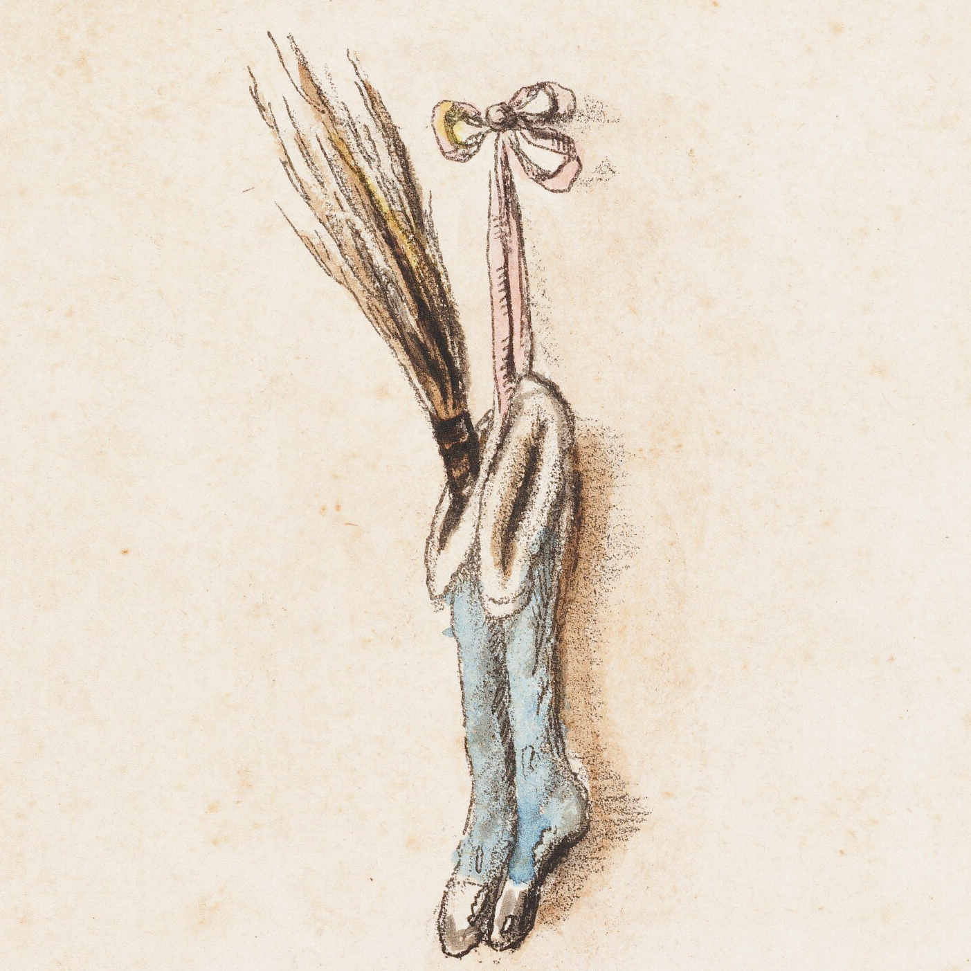 Illustration to verse 8 of the children's poem Old Santeclaus with Much Delight